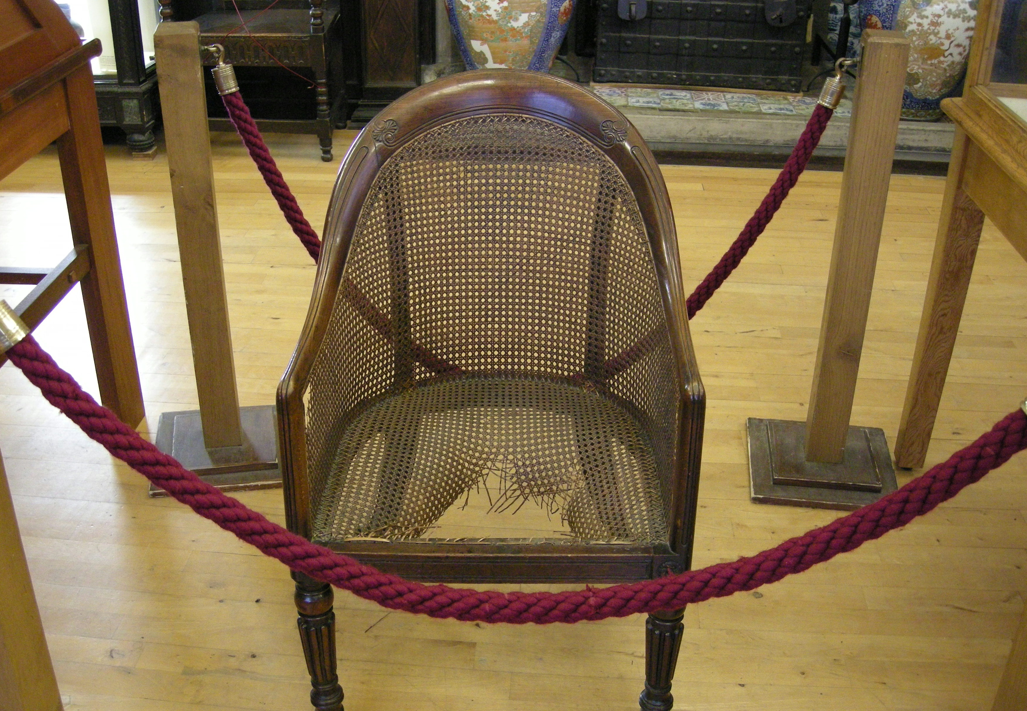 Napoleon's Chair: mahogany canework bergere chair used by Napoleon Bonaparte (1769-1821). After Napoleon was exiled on St Helena in 1815 he used the chair at the house of Reverend Boys, and damaged the cane near the right arm with his penknife. The other wear and tear was caused by the Public. In Maidstone Museum, Kent, England.